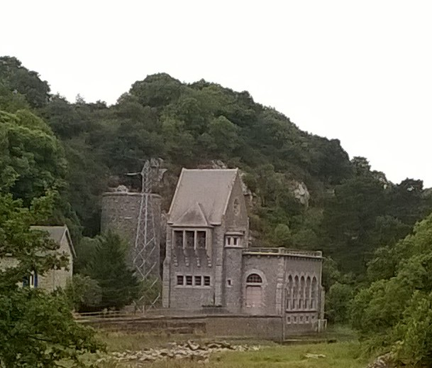 Religious-like architecture in a religious area